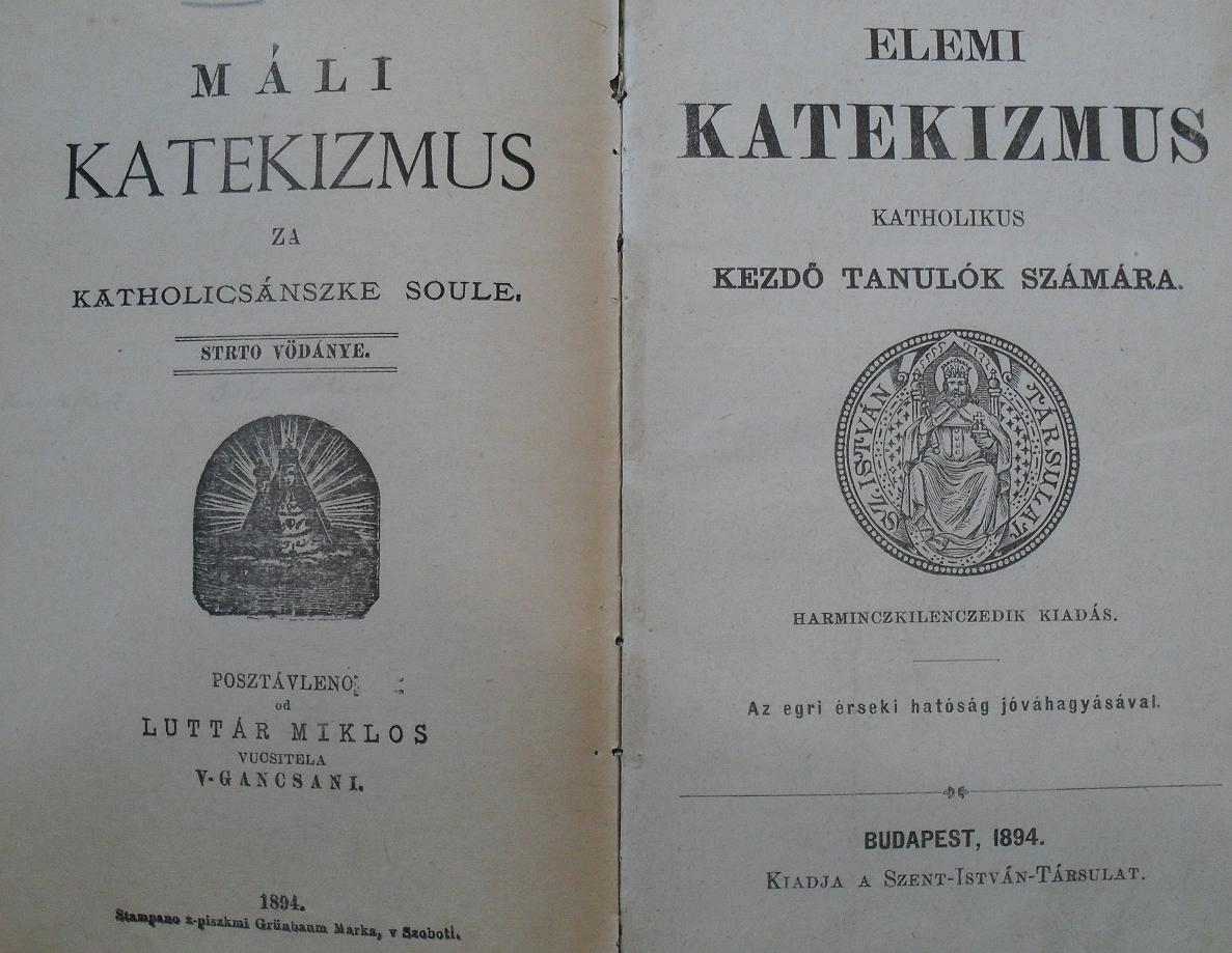 The teacher of Gančani Miklós Luttár's cathecism: Máli katekizmus za katholicsánszke soule (Small cathecism for catholic schools), magyarization propaganda book, 4. issue in 1894